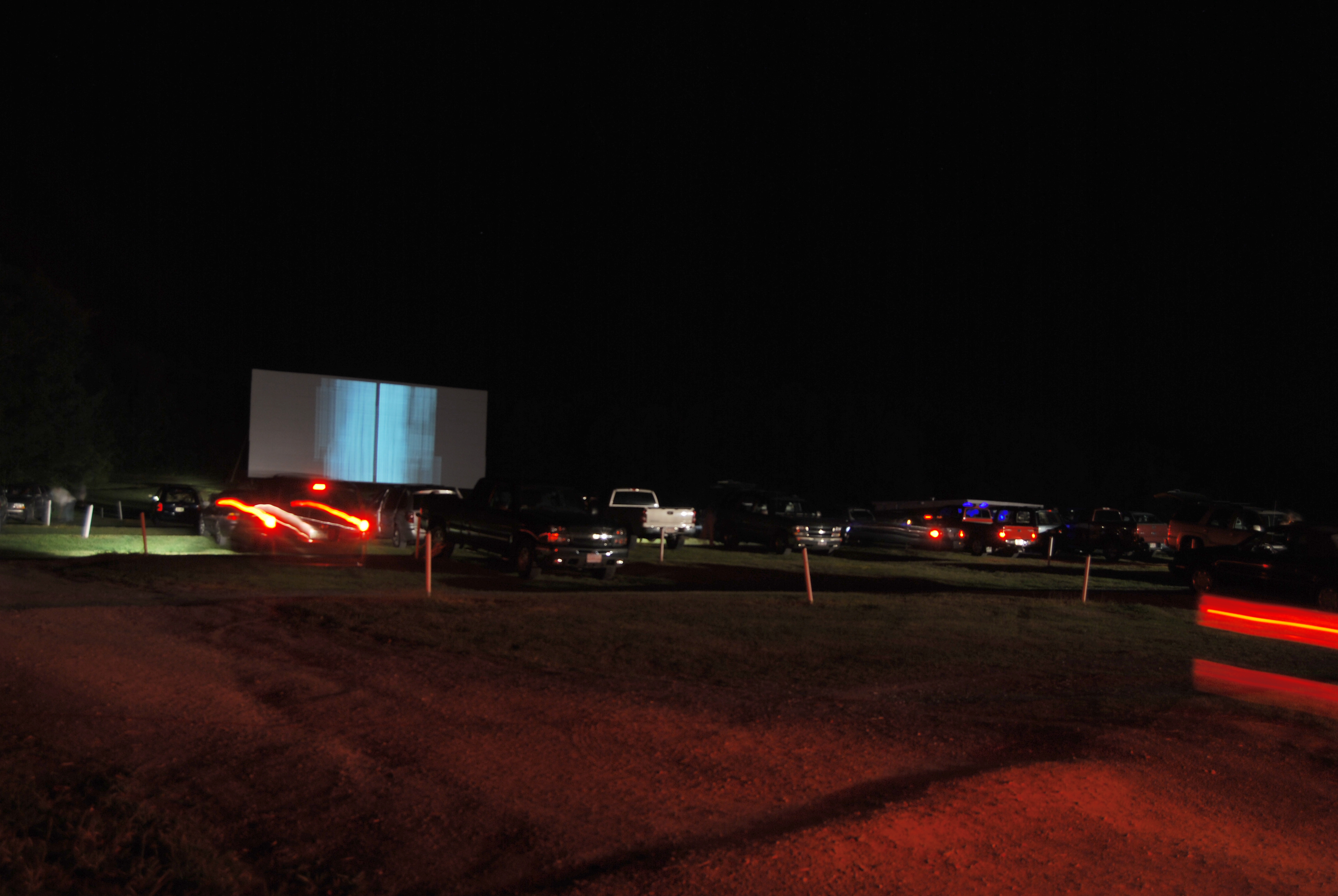 Hollywood Drive In on Route 66 in Averill Park, New York, United States. Credits roll for the movie Aliens in the Attic. The screen is blurred due to the exposure time of the photograph, which was 10 seconds to expose the camera to enough light.